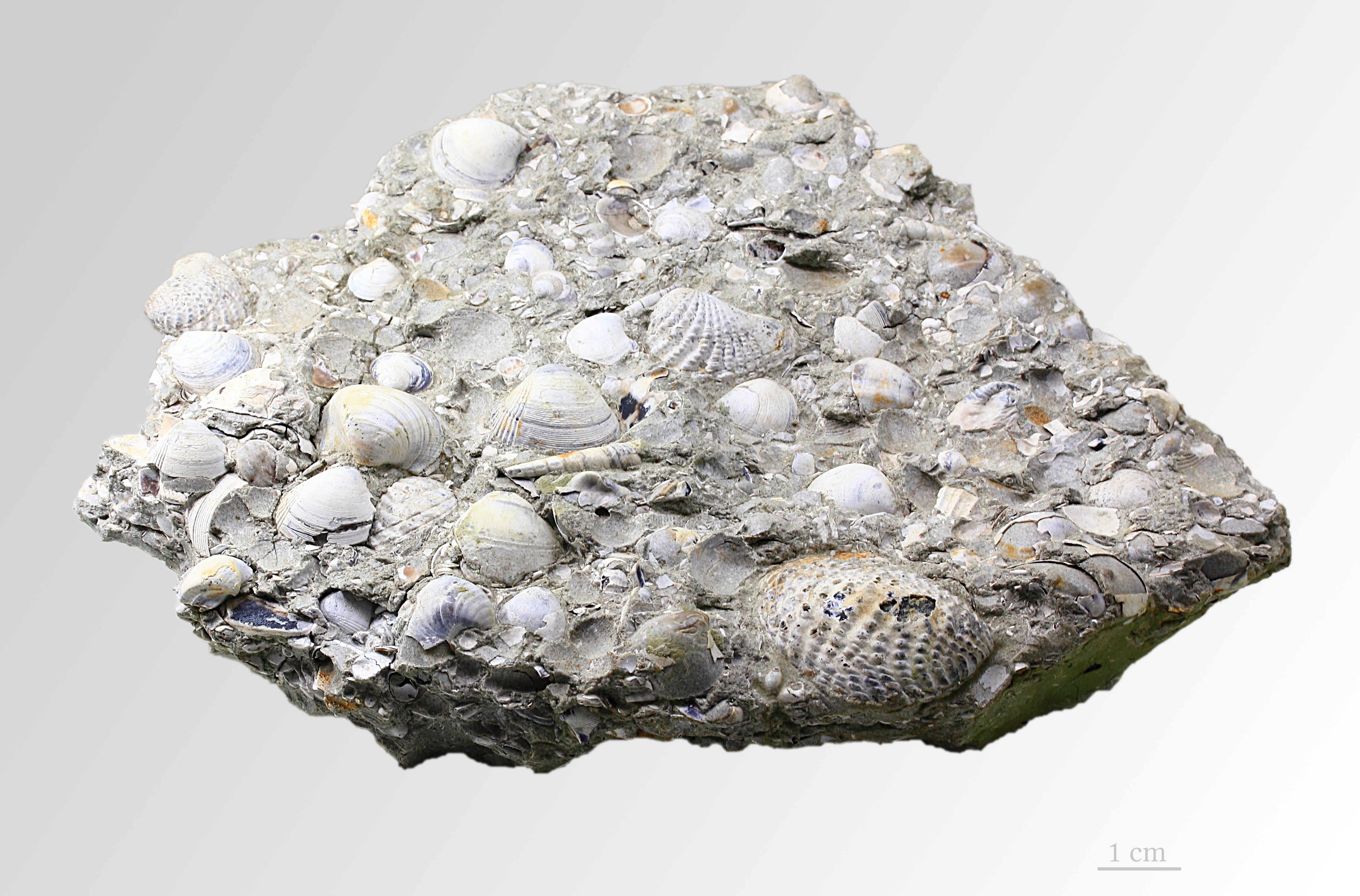 Trigoniidae Trigonia Daedalea - Albian - Strepy, Belgium